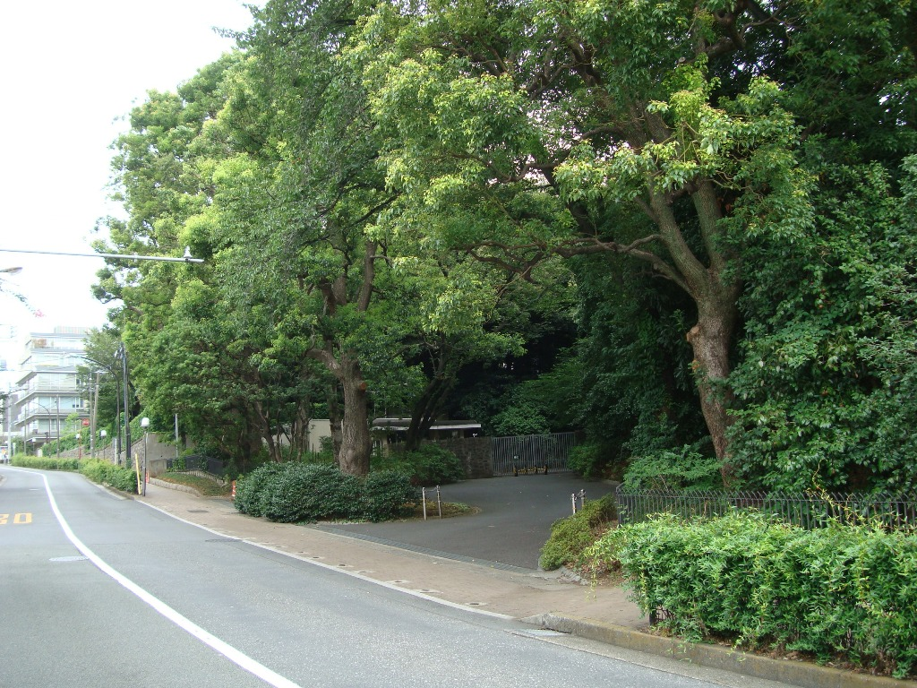 Woods of Hitachnomiya's residence (Tokiwamatsu Palace), Shibuya, Tokyo